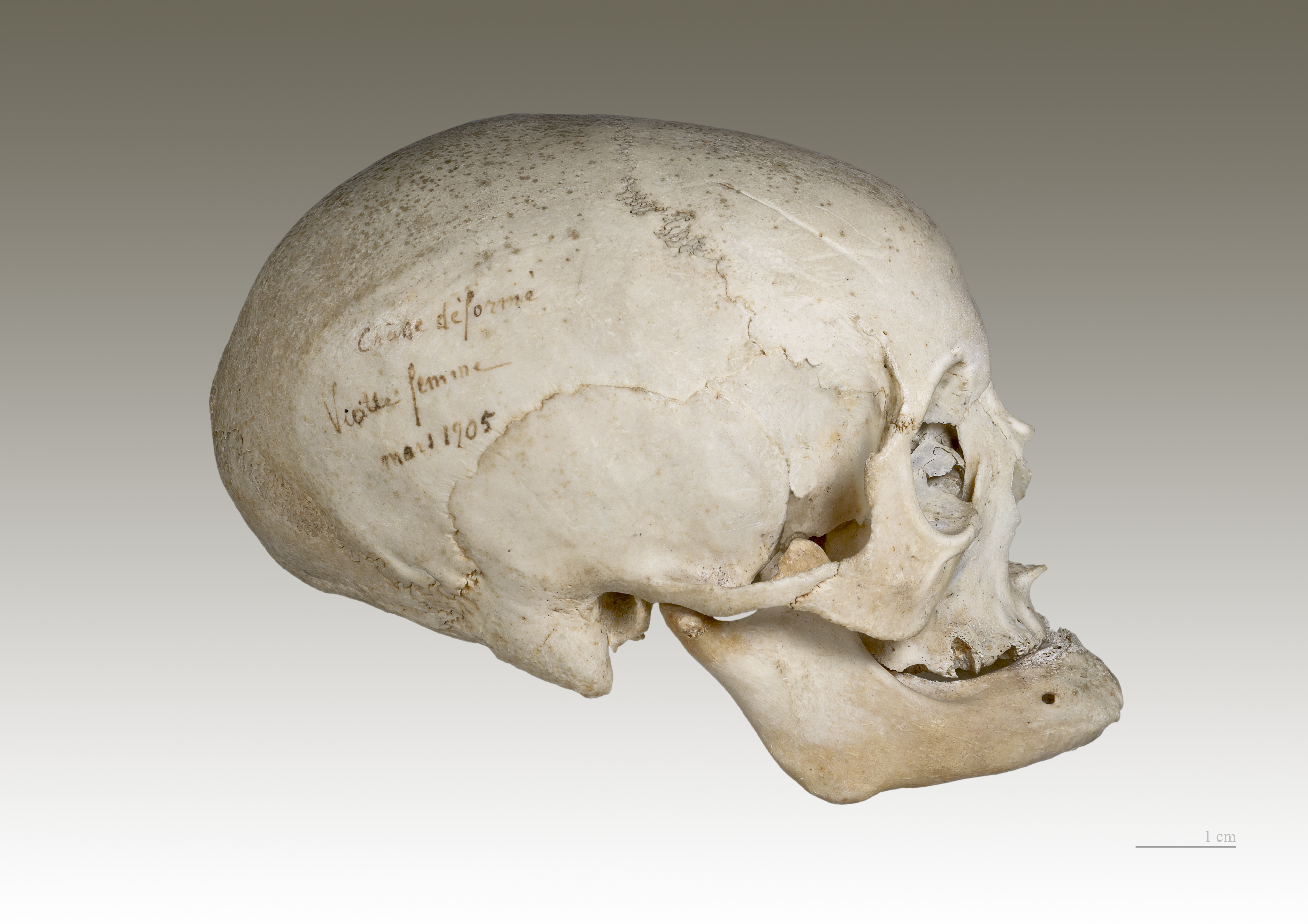 Homo sapiens sapiens - Deliberate deformity of the skull, "Toulouse deformity ".